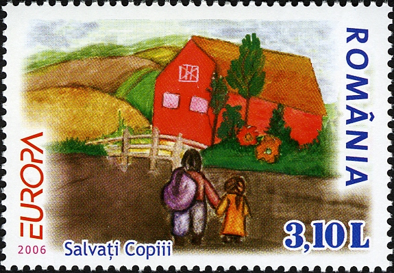 Stamps of Romania, 2006